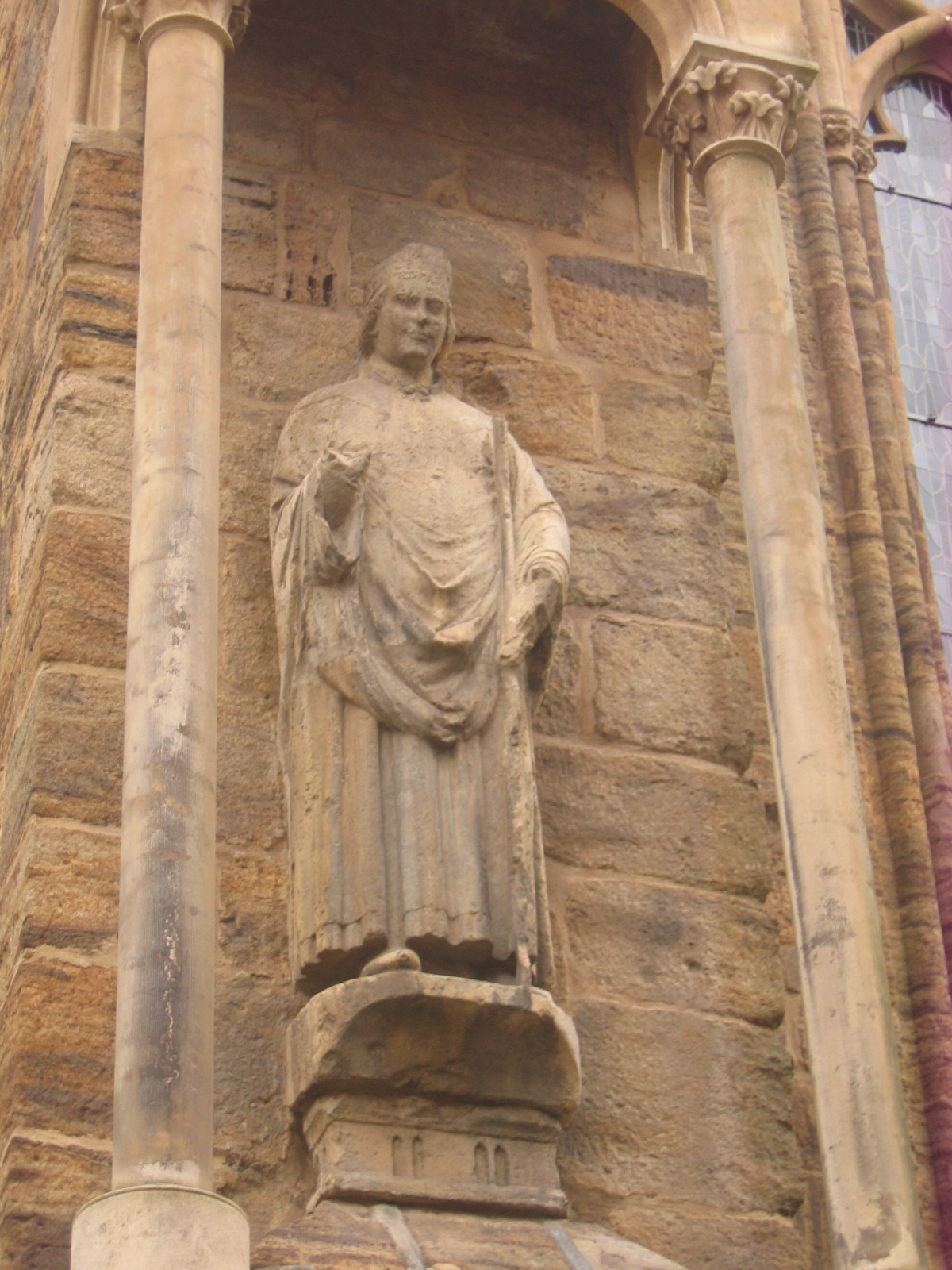 Cathedral in Minden, District of Minden-Lübbecke, North Rhine-Westphalia, Germany.